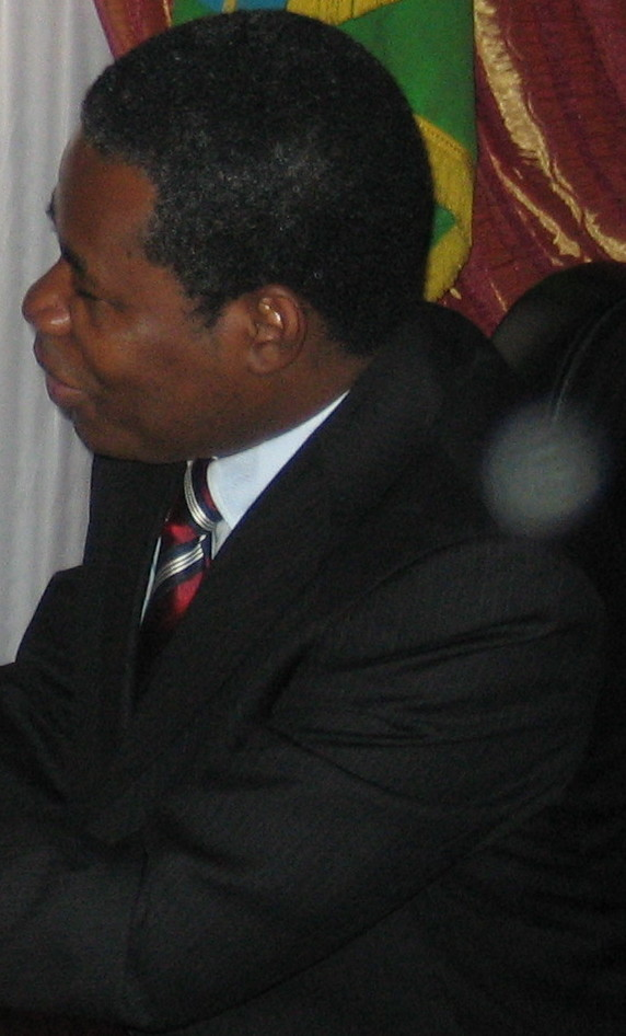 Senator Johnny Isakson meets with Prime Minister Ricardo Mangue Obama Nfubea of Equatorial Guinea in Malabo.